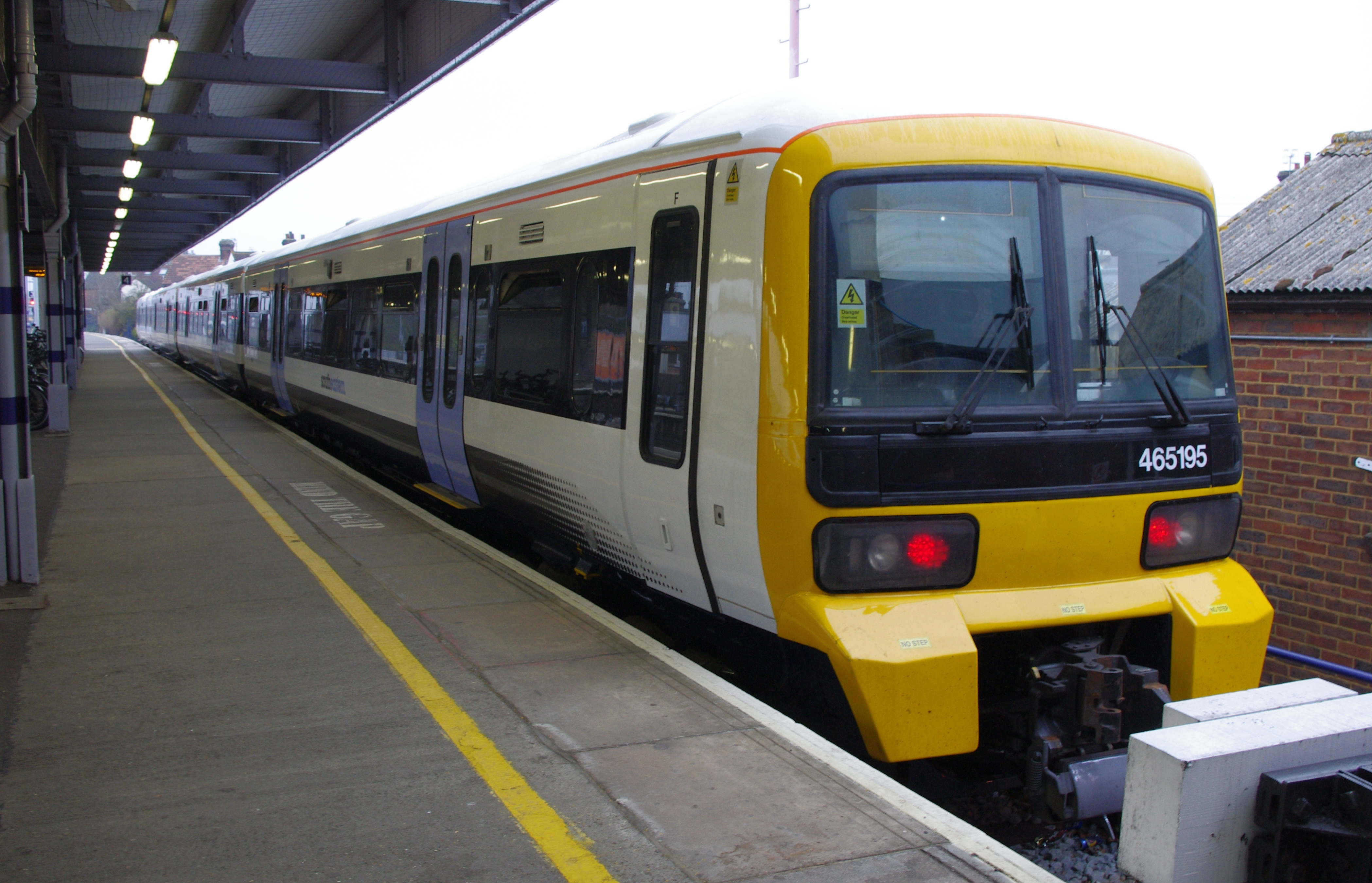 465195 at Tonbridge